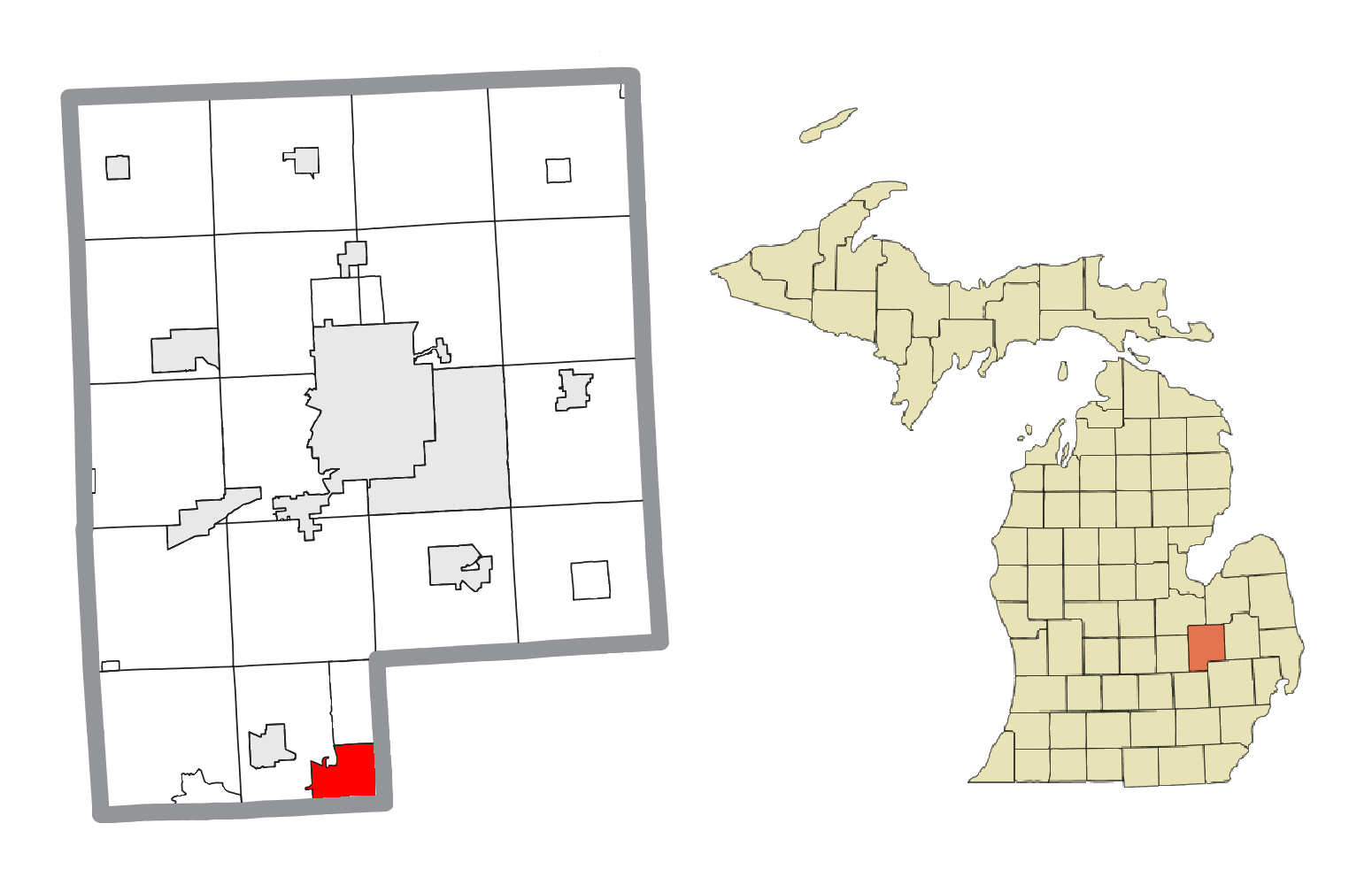 Fenton, MI